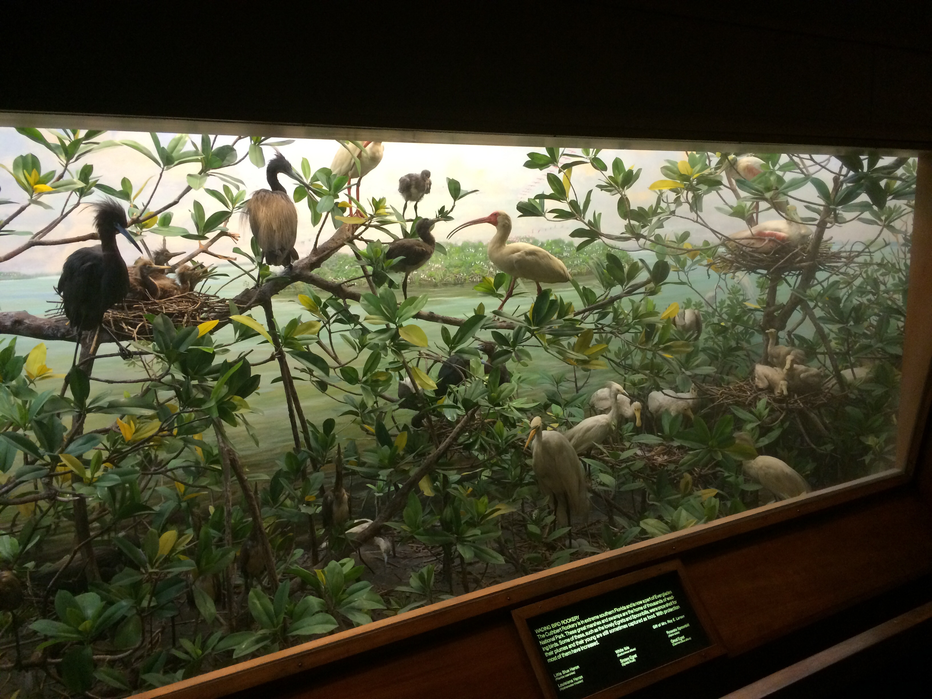 Cuthbert Rookery Diorama, Sanford Hall of North American Birds, American Museum of Natural History